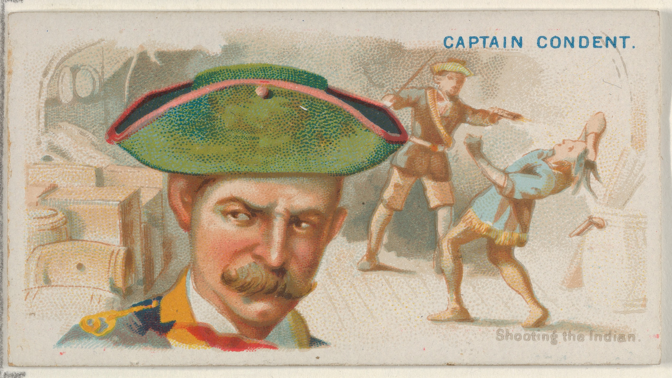 Print; Prints